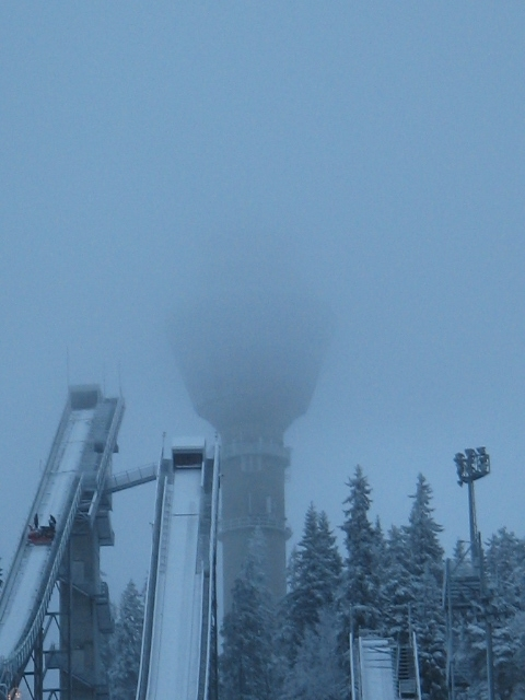 Stratus cloud or fog cloud near ground level. Puijo's Tower in Kuopio disappears to stratus cloud.